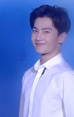 Yang Yang at Happy Camp March 21, 2015